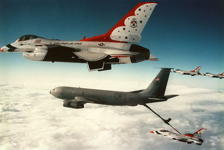 A U.S. Air Force Boeing KC-135E Stratotanker from the 116th Air Refueling Squadron, 141st Air Refueling Wing, Washington Air National Guard, refuels General Dynamics F-16C Fighting Falcon fighters from the U.S. Air Force Thunderbirds aerobatics team.